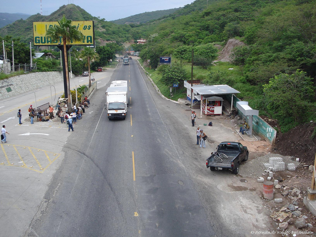 Guastatoya, El Progreso, Guatemala.